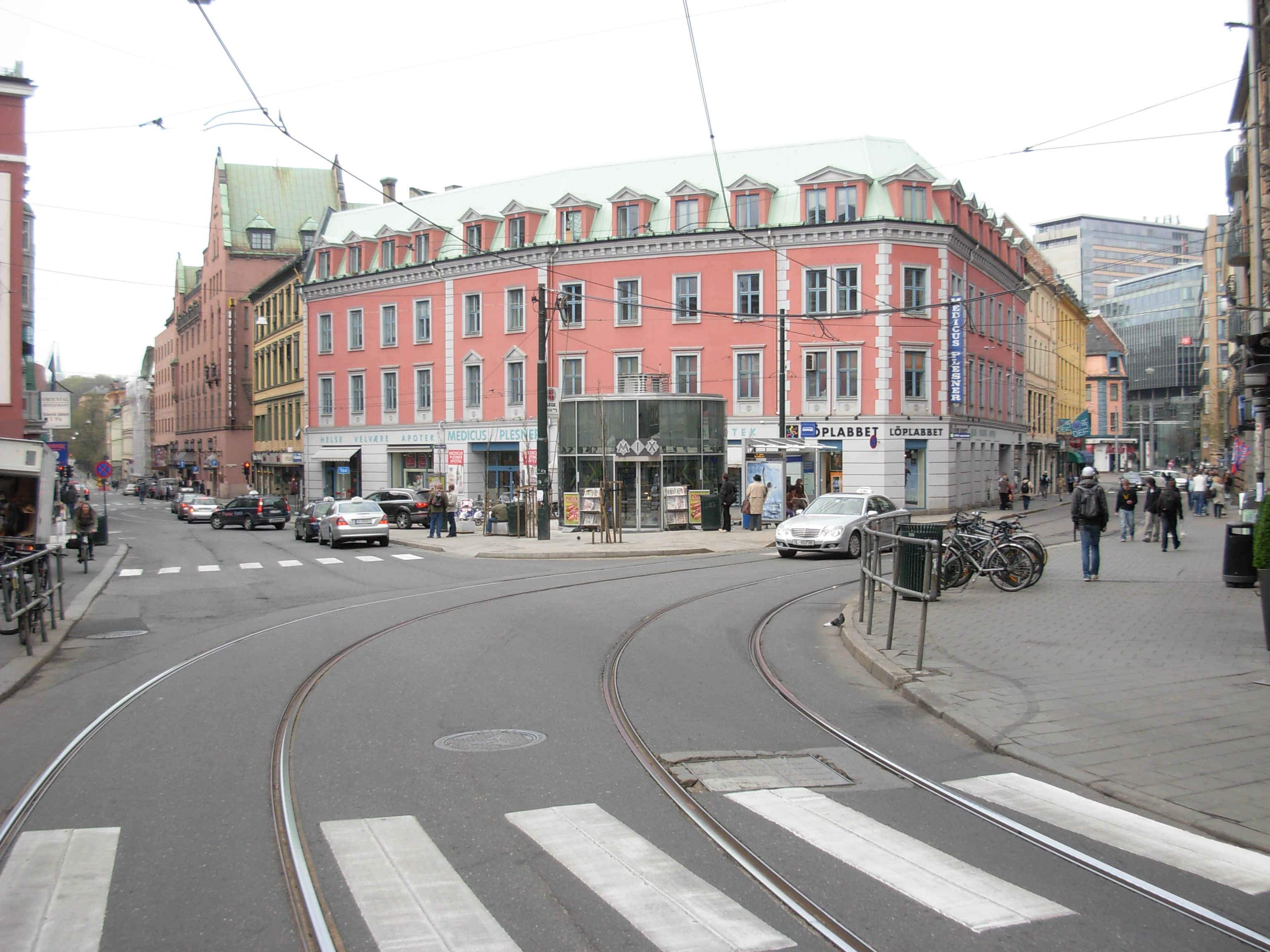 Professor Aschehougs square (plass), Oslo, Norway